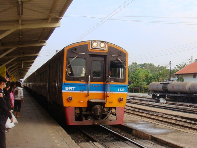 Rapid-transit train of State Railway of Thailand, Thailand.